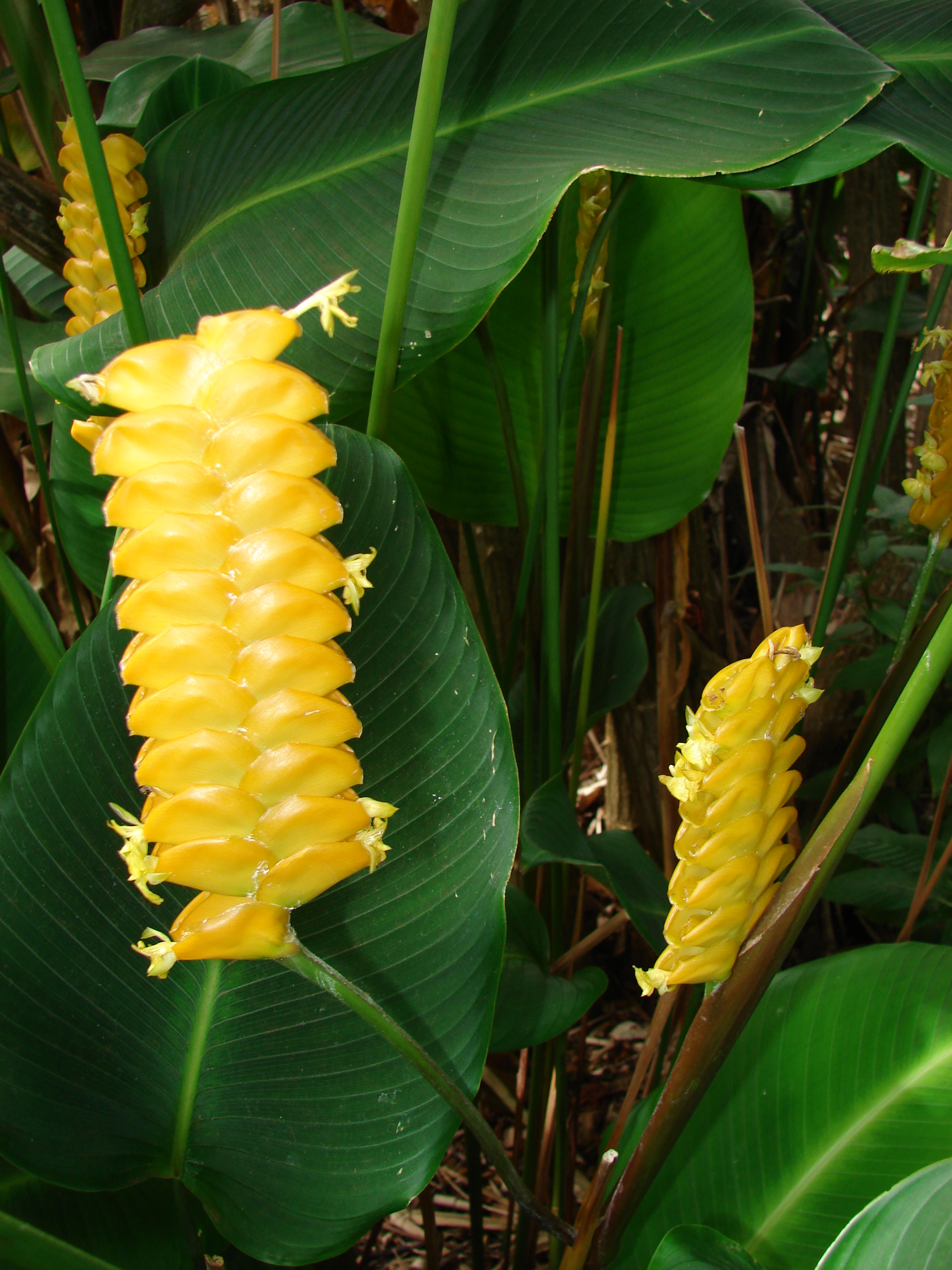 Calathea crotalifera (flowers and leaves). Location: Maui, Enchanting Gardens of Kula